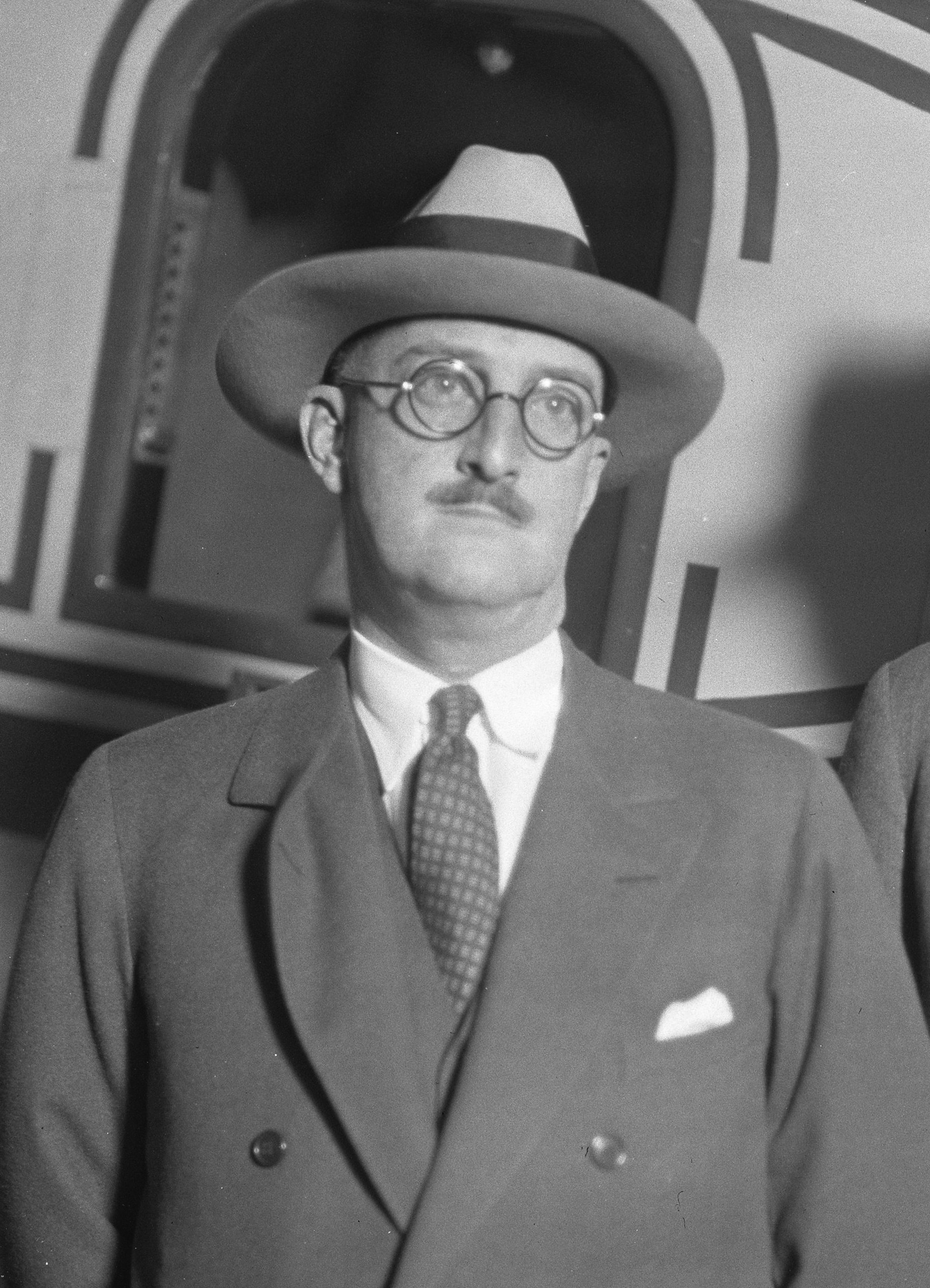 Title: William E. Boeing and Fred Rentschler standing in front of an airplane, 1929